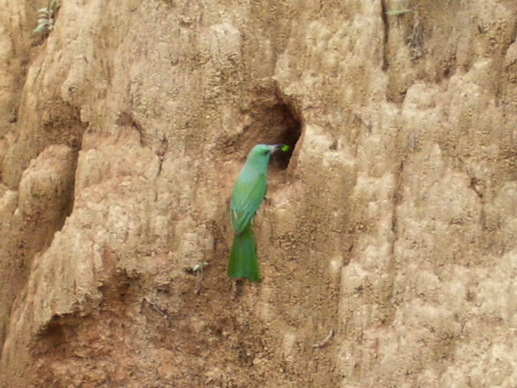 Bluebearded Bee-eater near its nest in BR Hills in South India